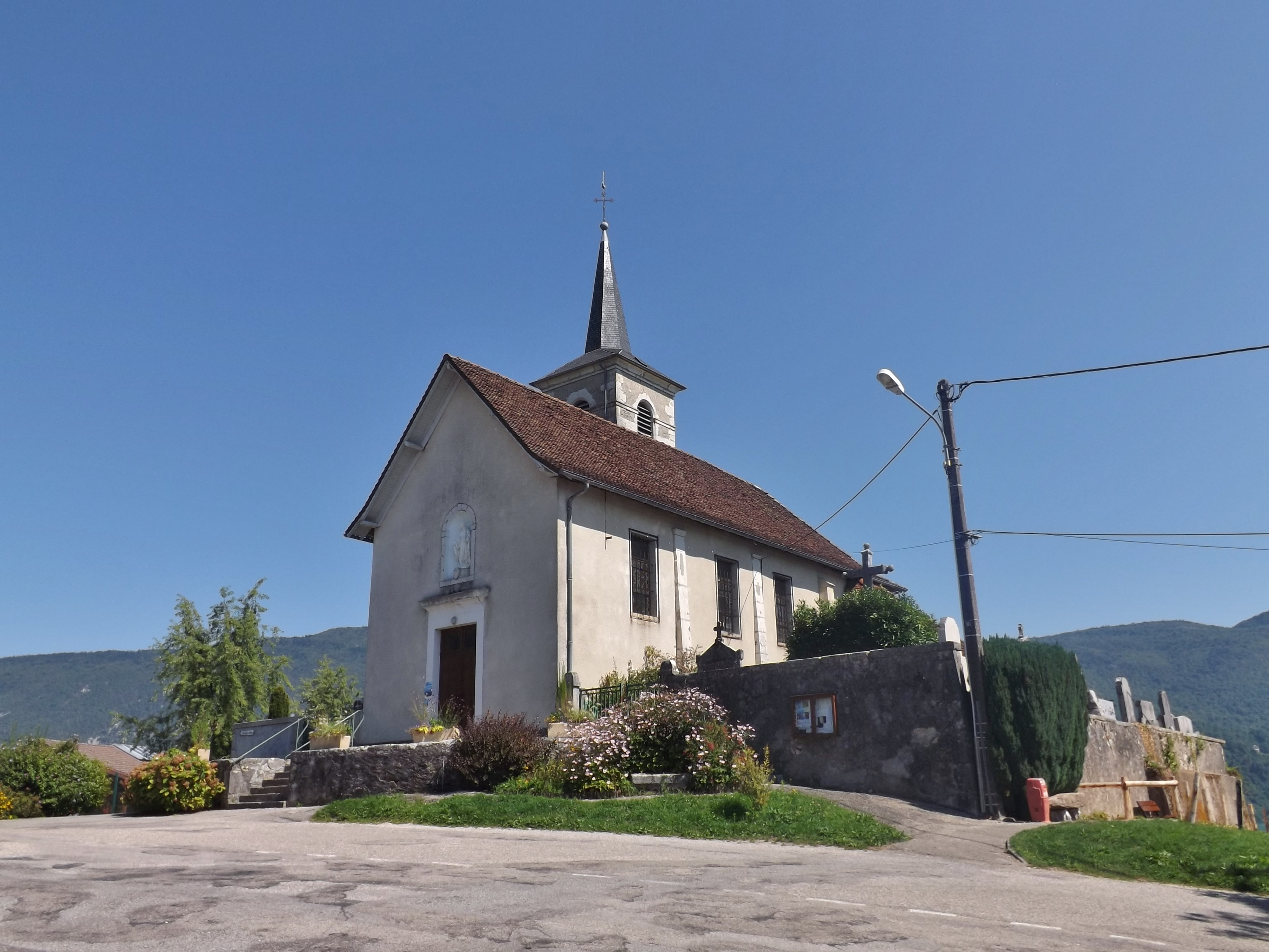 Sight of the church of Saint-Alban-de-Montbel village, in Savoie, France.